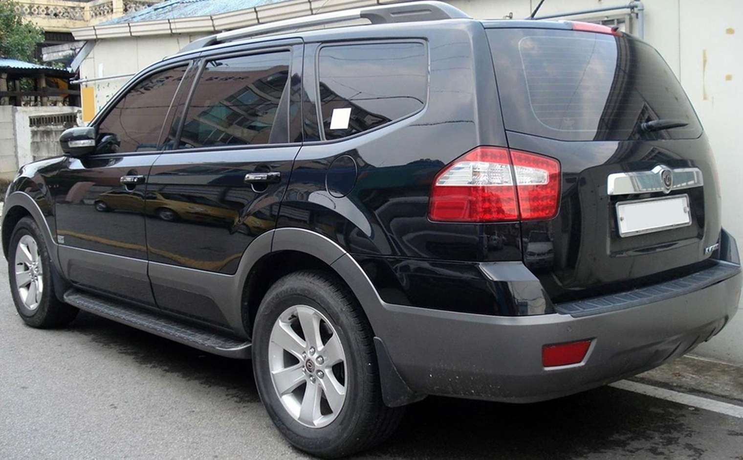 Kia Mohave